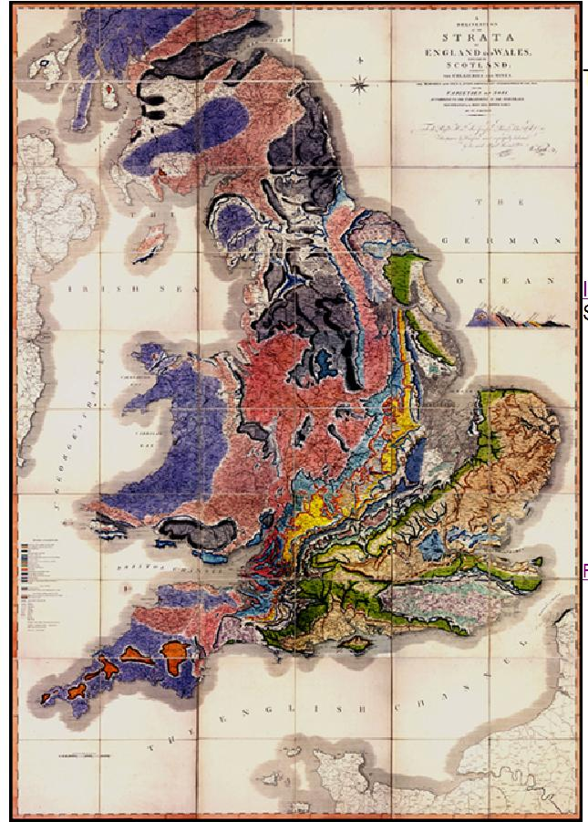 The first geological map of Britain, published by William Smith in 1815.